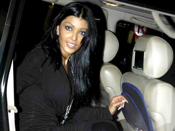 Koena Mitra arrives back from LA